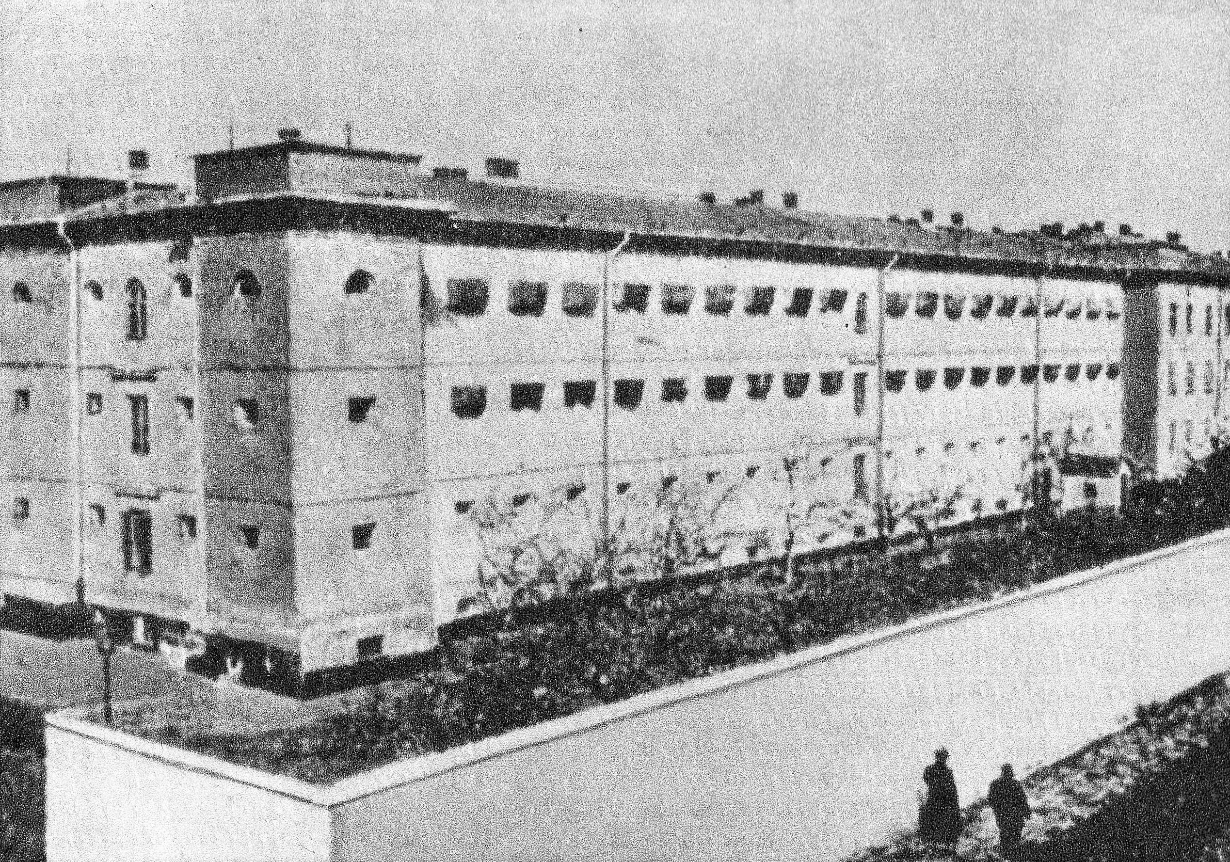 Pawiak Prison viewed from Dzielna Street